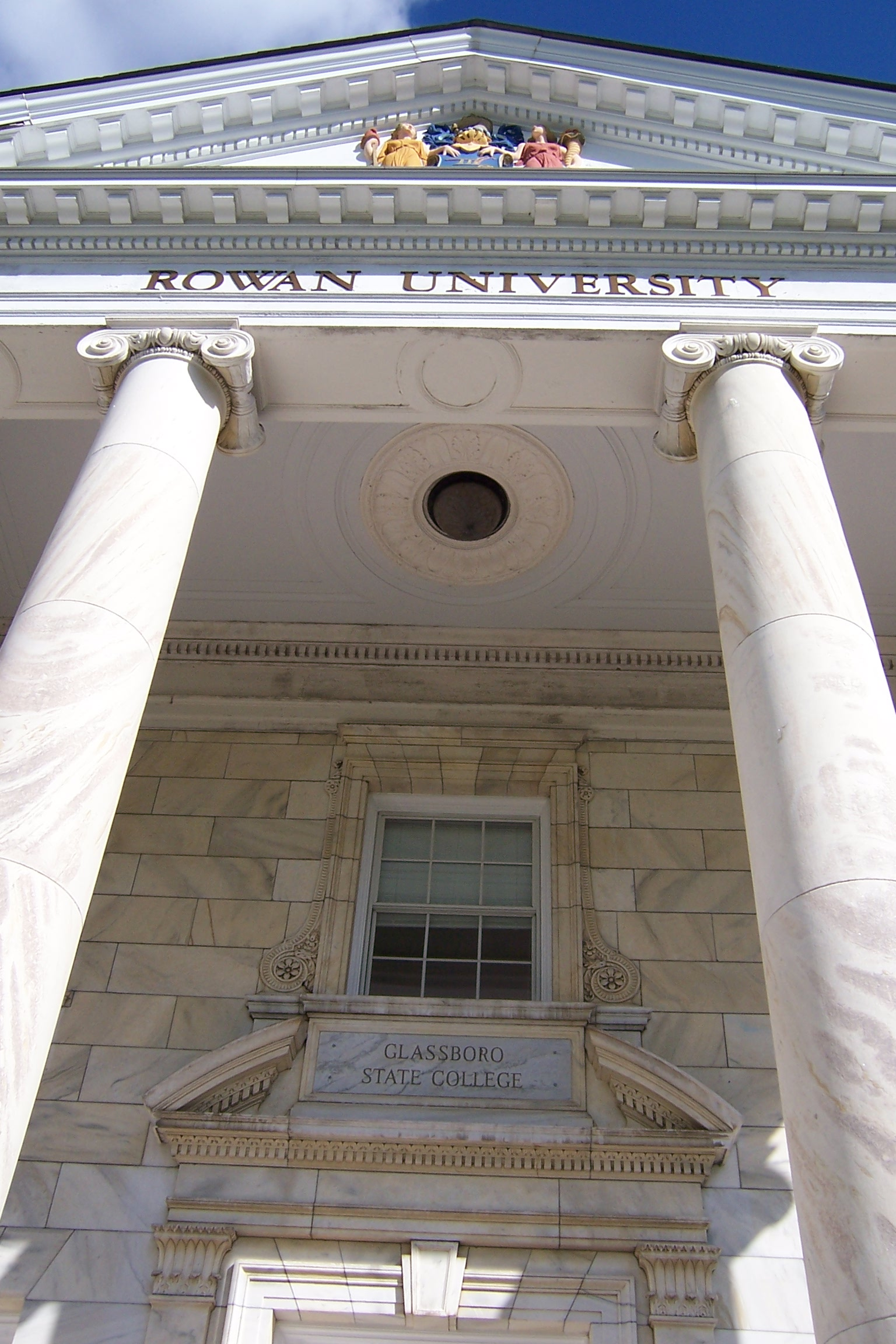 Rowan University, facade of Bunce Hall. Taken by me, 16 October 2005.